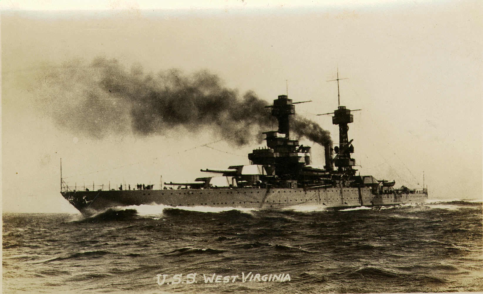 The U.S. Navy battleship USS West Virginia (BB-48) during operations at sea, in the 1930s.